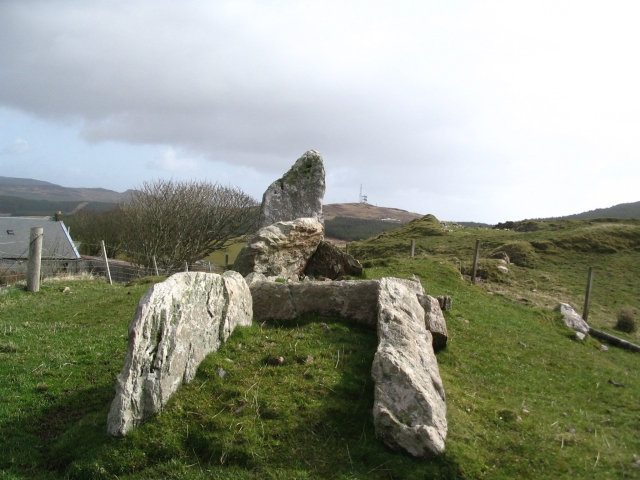 Chambered Cairn (remains of) near Cragabus